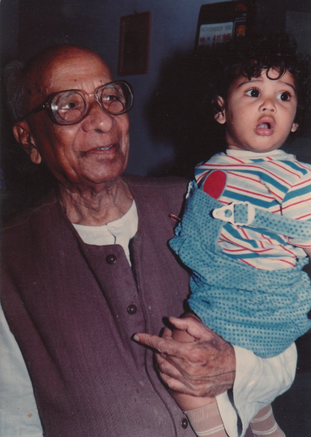 Member of Parliament, India